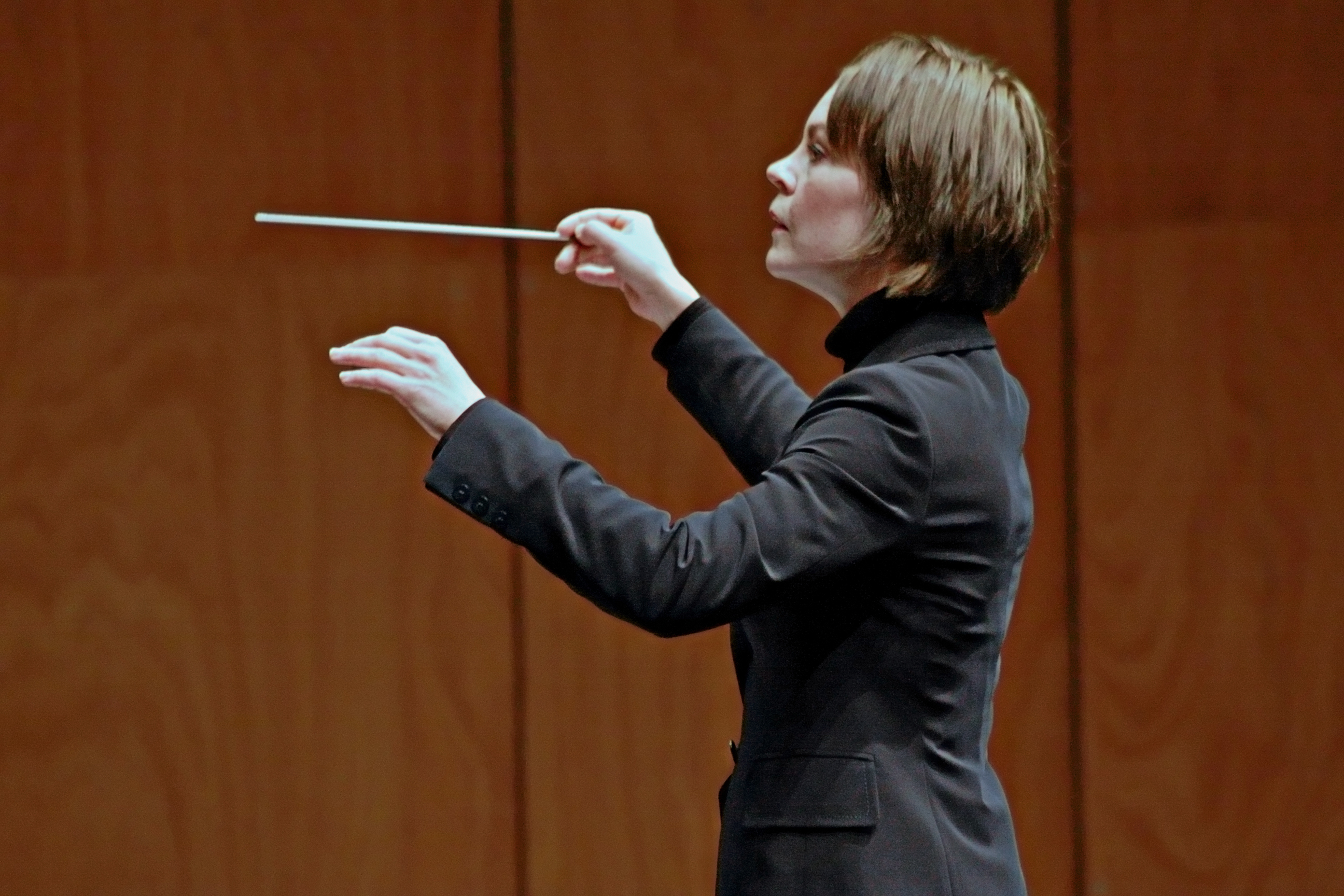 Conductor Susanna Mälkki conducting the Ensemble InterContemporain in Torino Palavela September 18, 2008.